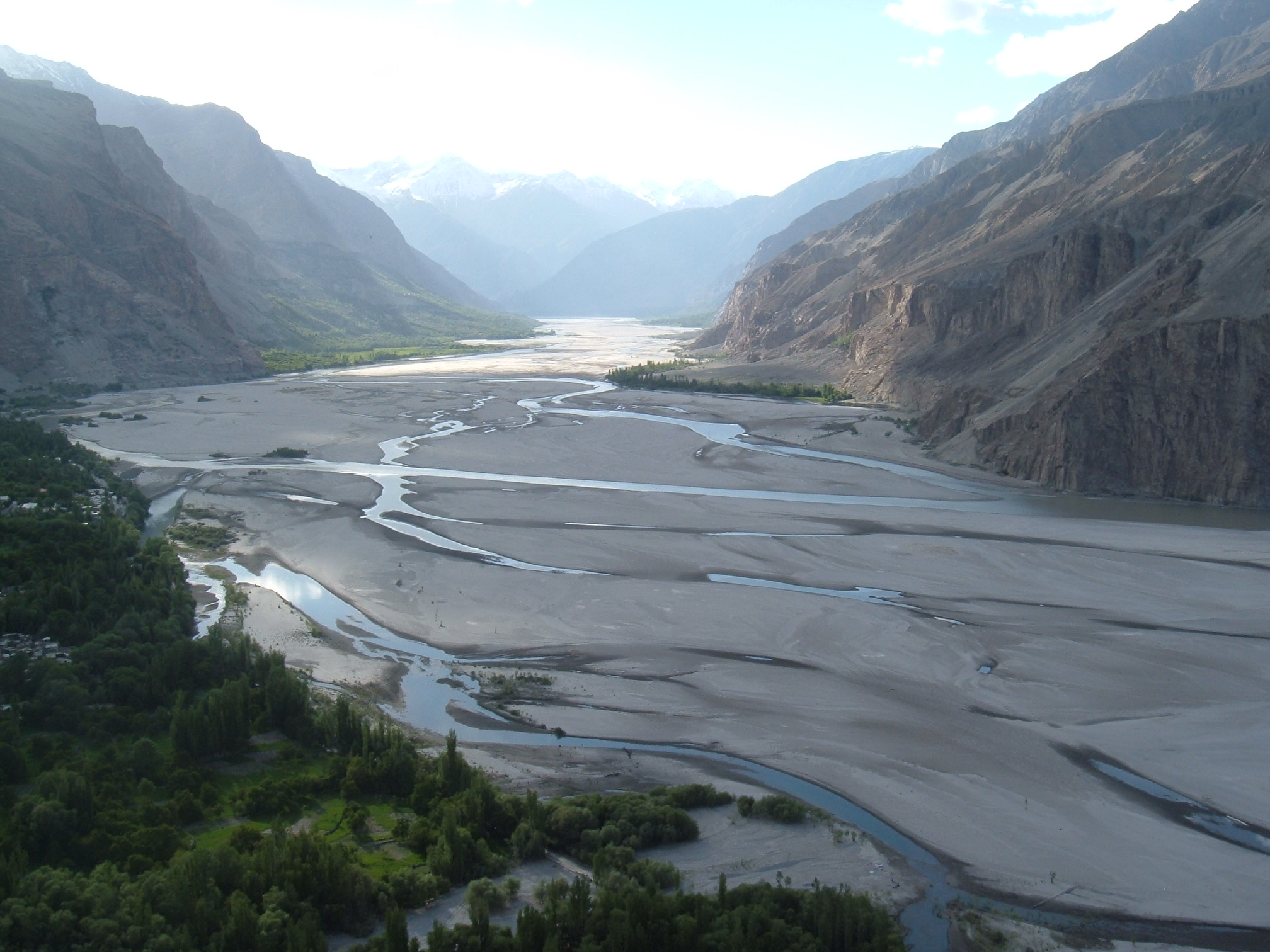 shyuok river of khaplu